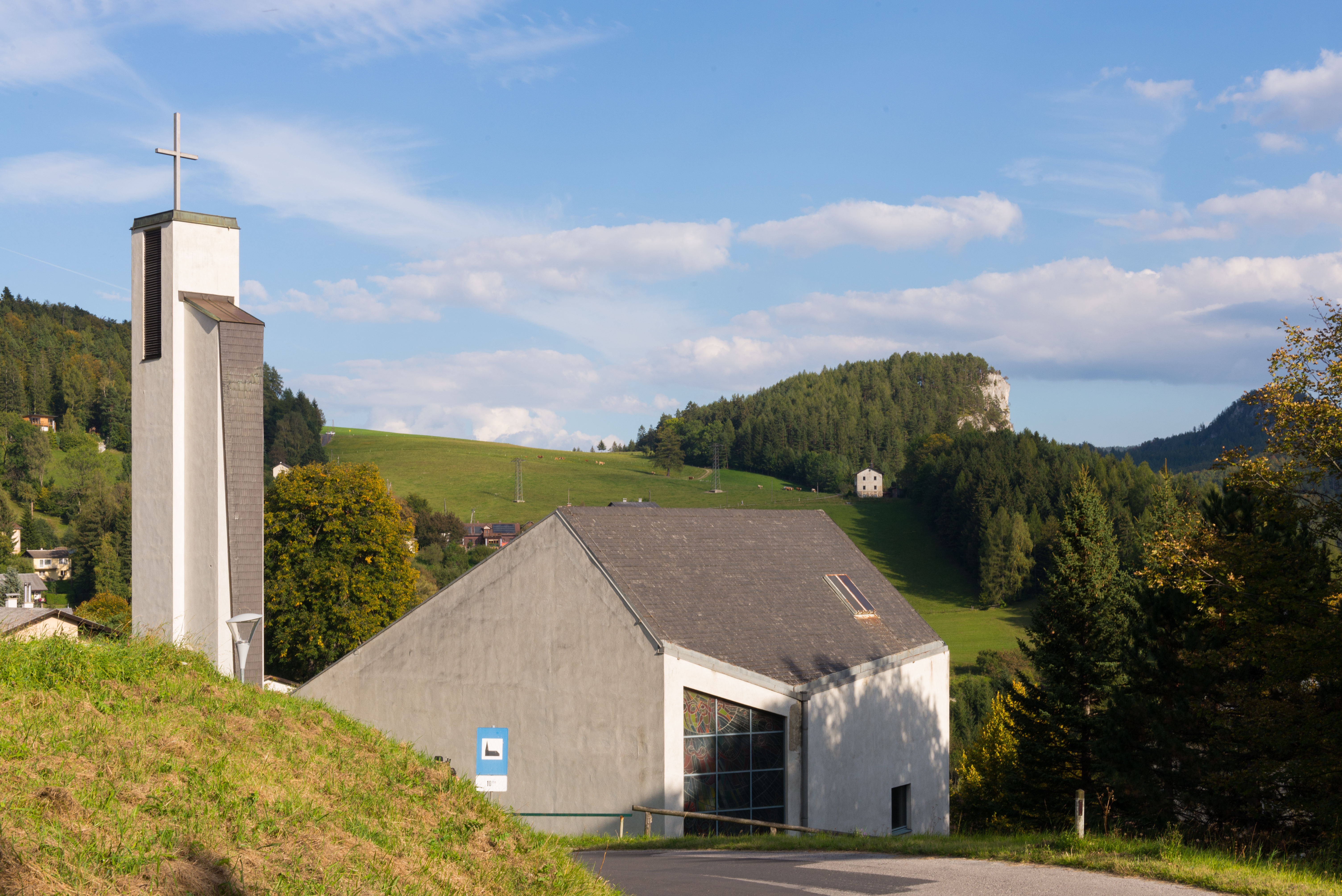 The new church in the village Breitenstein.